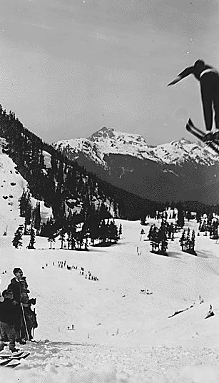 A Ski Jumper about 20ft from Snow Take-Off, Heather Meadows, Mount Baker National Forest, 1936., ca. 1920 - ca. 1930